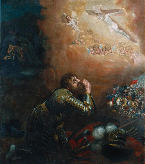 D. Afonso Henriques's vision during the Battle of Ourique (1139).